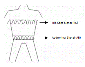 Drawing of dual band respiratory inductance plethysmograph with bands on torso.